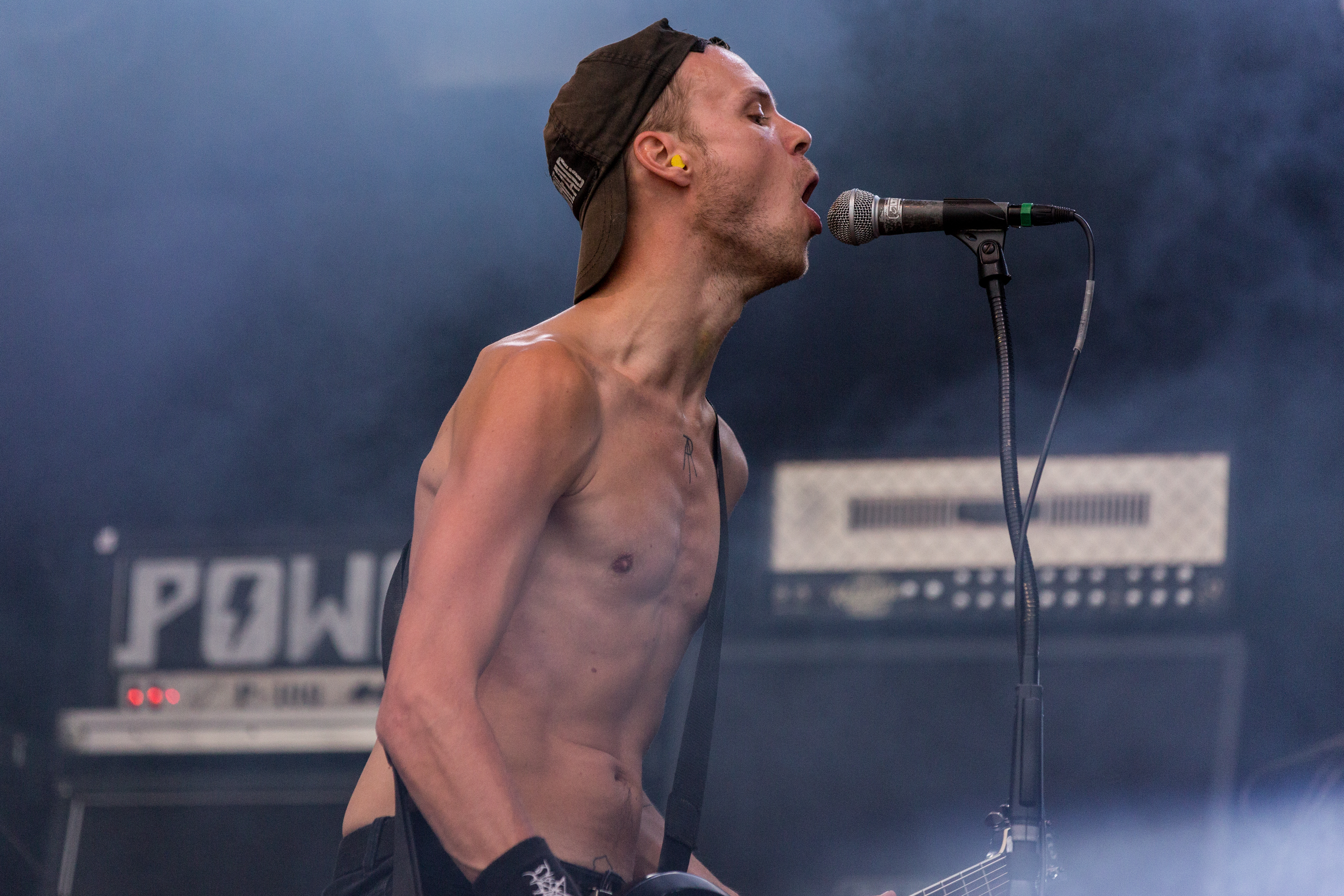 The German sludge metal band Mantar at the Party.San Metal Open Air 2016 in Obermehler-Schlotheim/Germany.